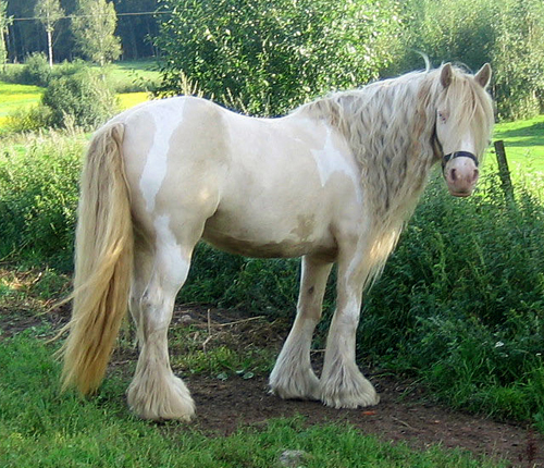 Rökvitt Irish Cob-sto med tobiano- och sabinogener. / Smoky cream Irish Cob mare. Also carries Tobiano and Sabino genes. DNA-tested: EE aa CrCr.